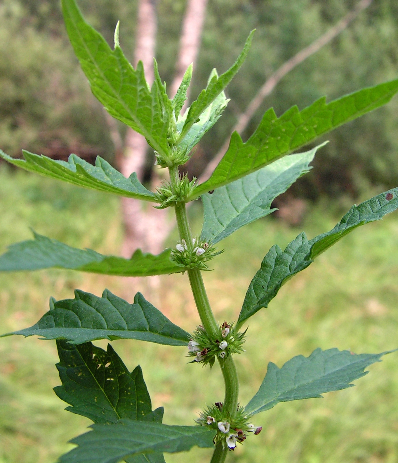 Flowering Gypsywort. Moscow region, Russia.